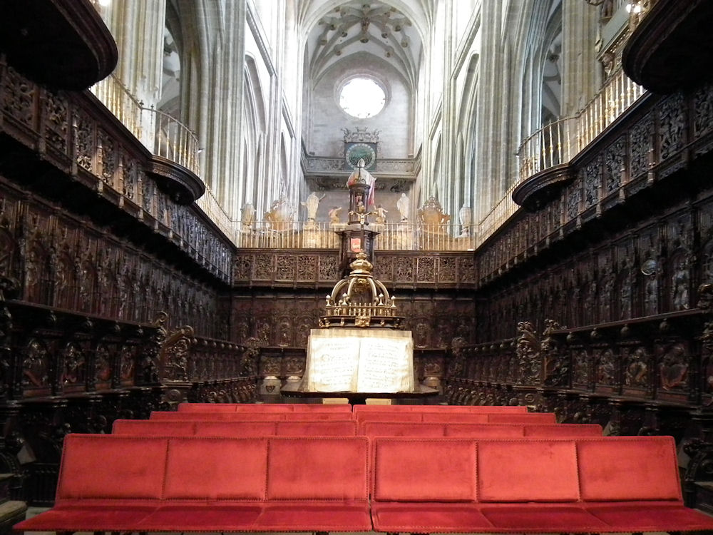 Choir area of the Catedral de Santa María, Astorga, León, Spain